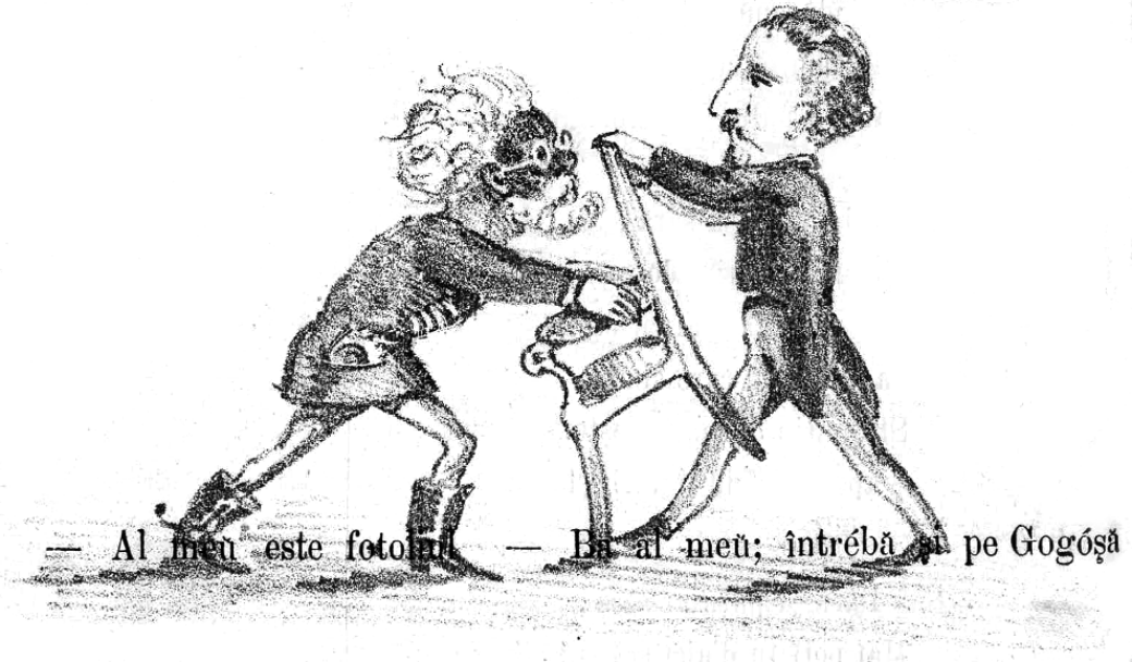 Cartoon mocking the validation of deputy seats in the Romanian general election of December 1868: Cezar Bolliac (left) losing the 4th College seat for Vlașca to Grigore Serrurie; the caption references N. Gogoașiă, winner of the 3rd College seat in that same constituency.